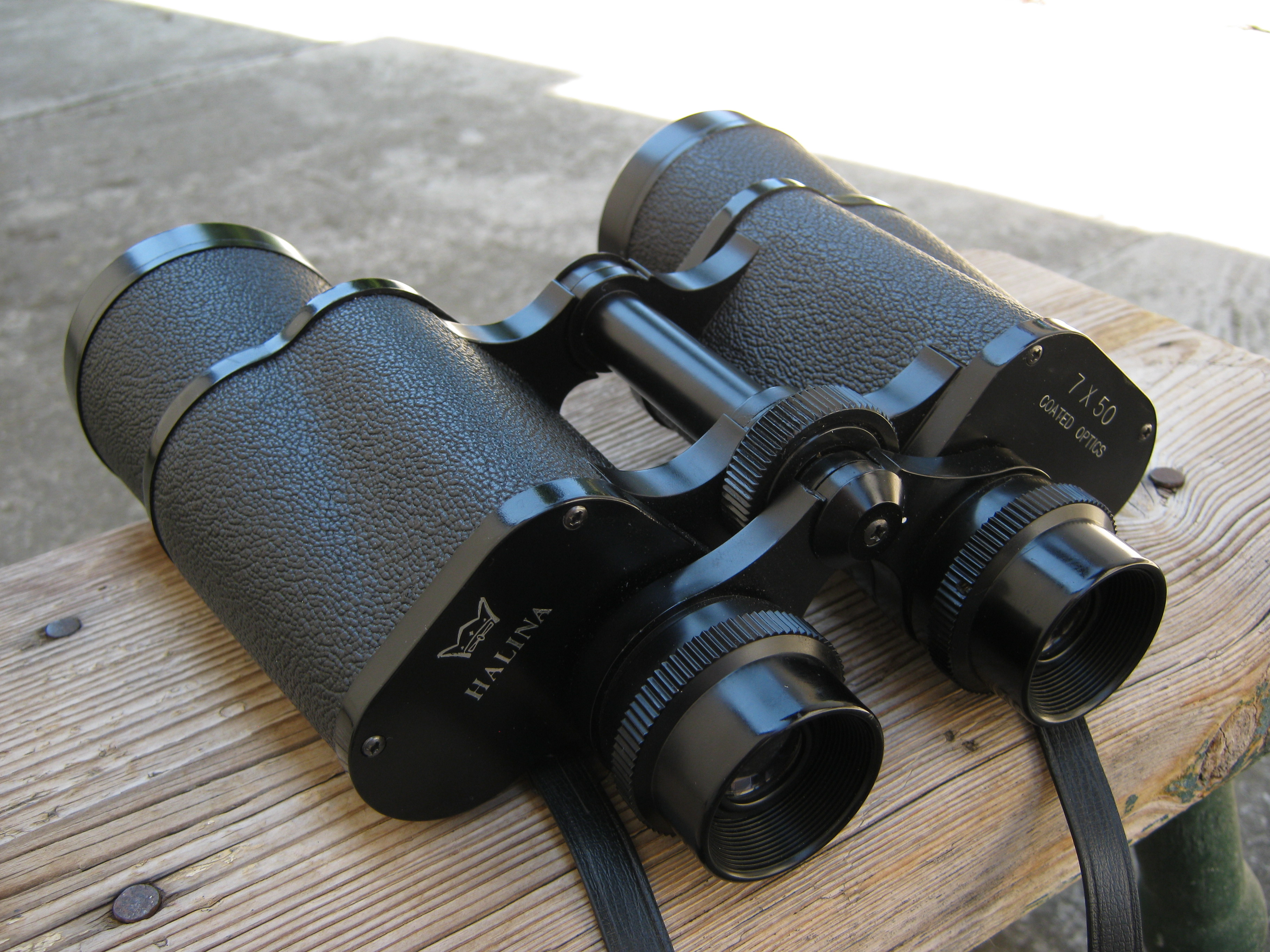 These binoculars are several decades old, but they are still in perfect condition.